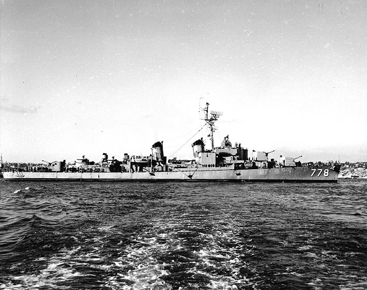 Photo #: NH 96846 - USS Massey (DD-778) - Photographed circa the early 1950s, after being fitted with new radar antennas.